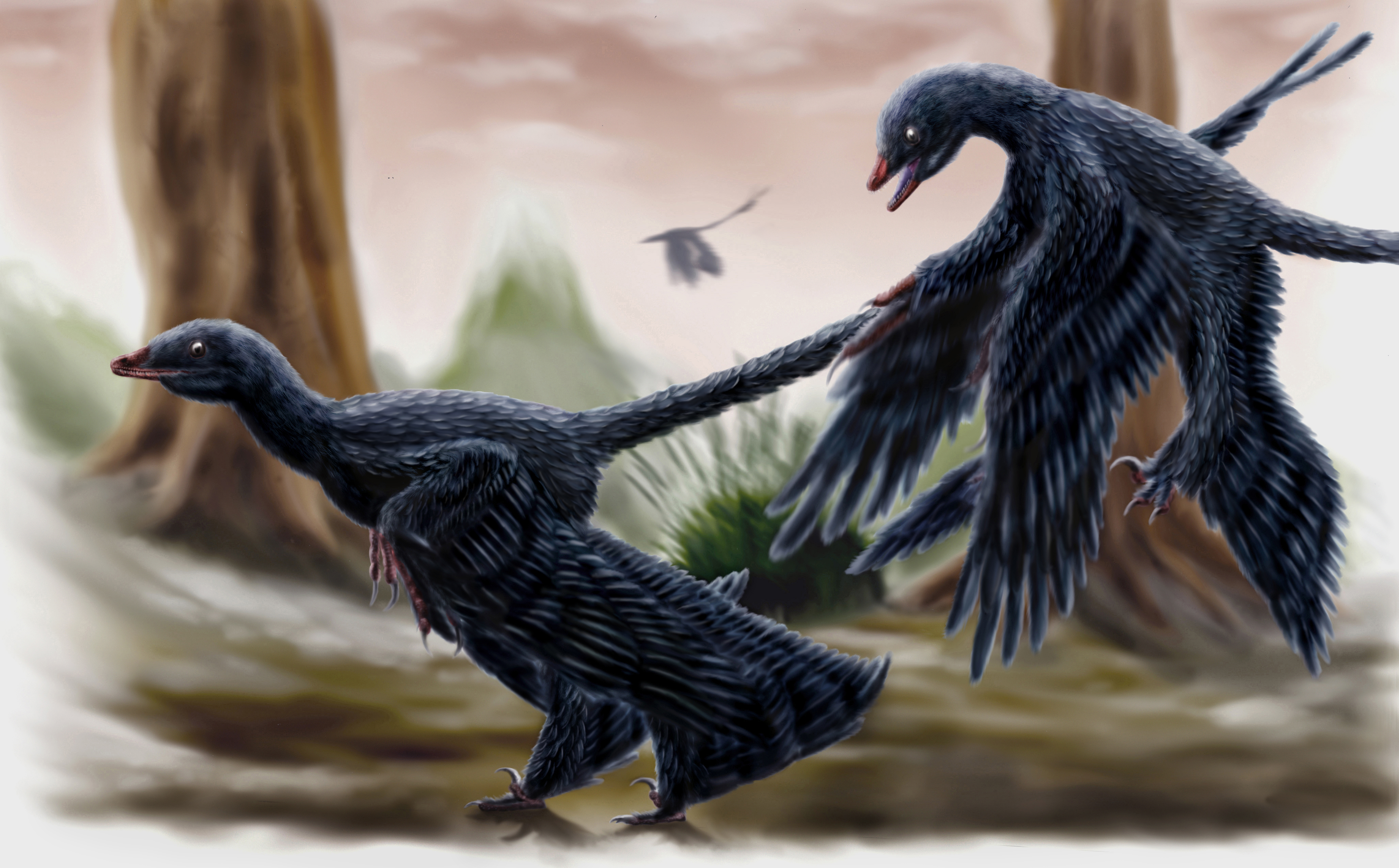 A pair of the microraptorine Microraptor searching the forest of Liaoning in spring.